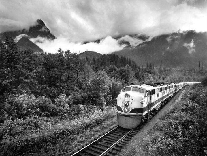 Photo of the Great Northern streamliner the Western Star which traveled between Chicago and Seattle.